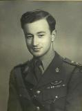 Keith MacLellan - WW2 Canadian Officer in British SAS uniform